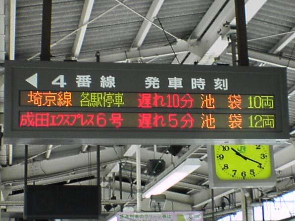 ATOSにおける列車遅延表示の一例(新宿駅にて) Train delay information on ATOS(at Shinjuku Sta.)